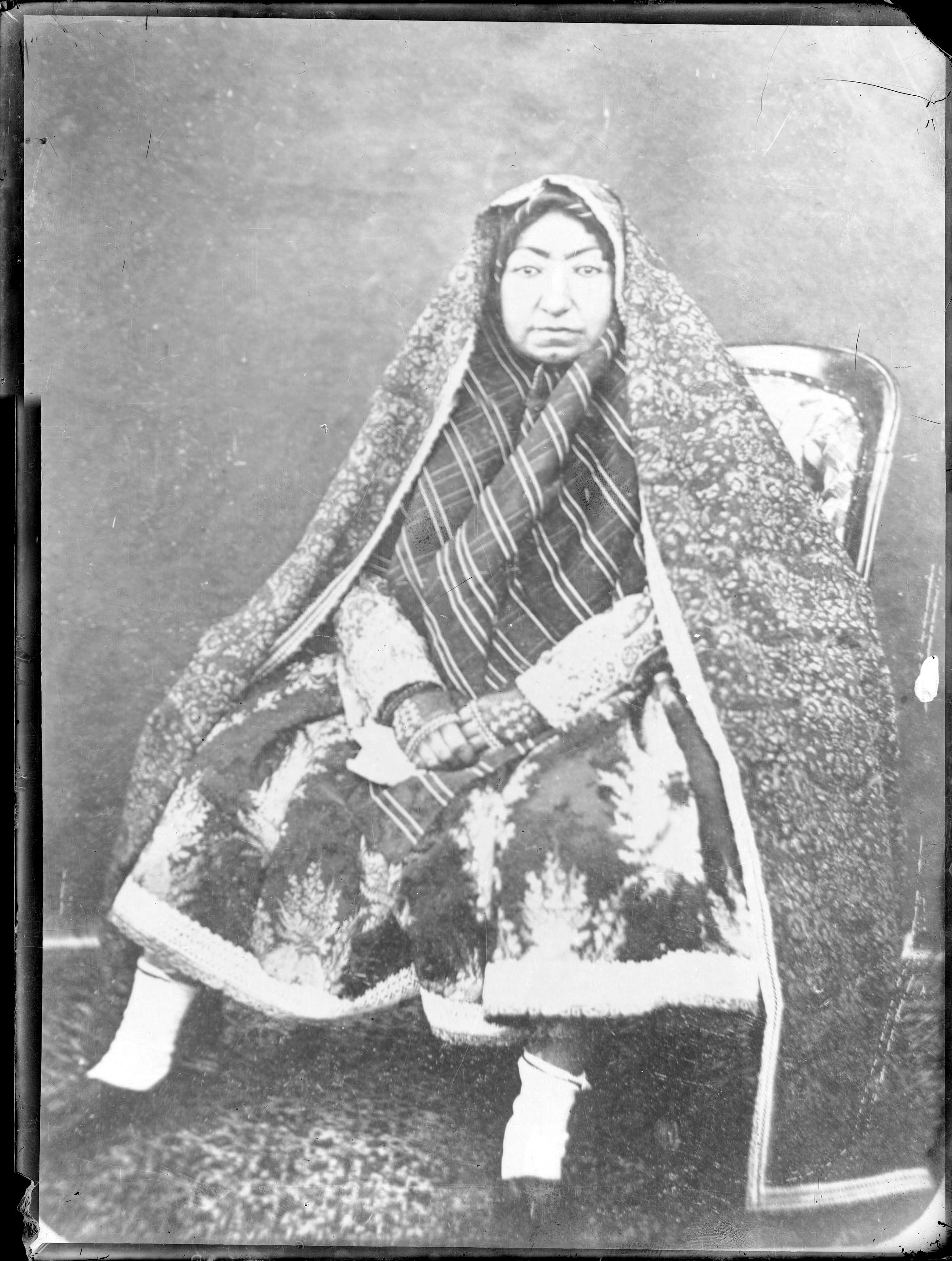 Antoin Sevruguin's historical Iran photographs.